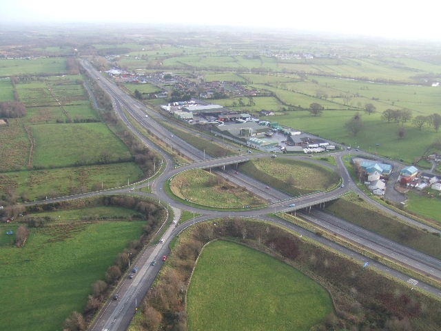 Tamnamore Junction 14 M1 Junction 14 on the M1 at Tamnamore near Dungannon. This picture was taken during a flight on a powered paraglider at an altitude of approx 300ft.